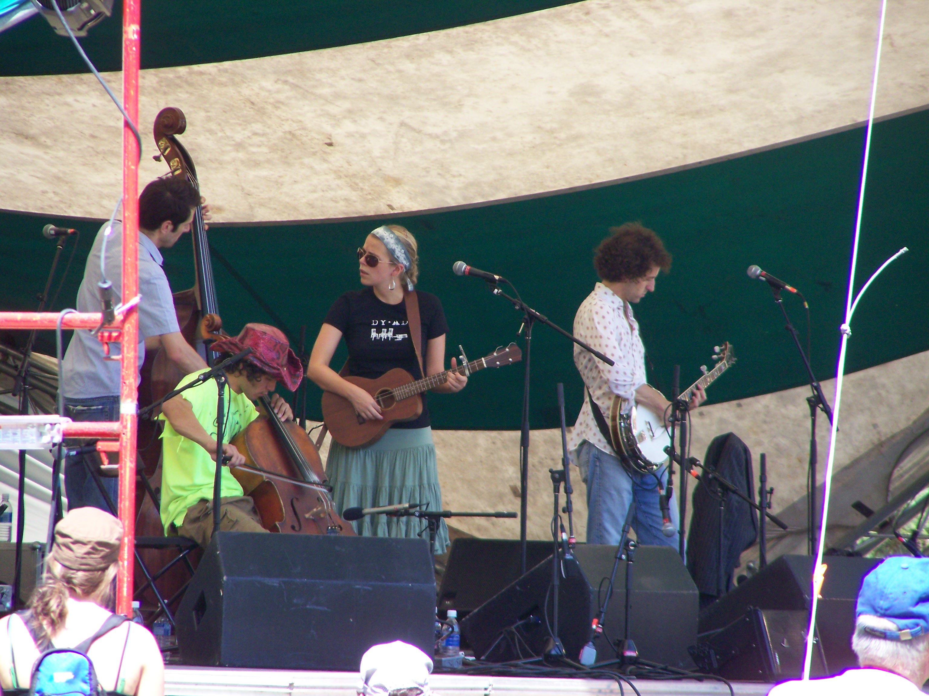 Taken on Prince's Island in Calgary, Alberta, Canada; during the 2007 Calgary Folk Festival. This is the band Crooked Still playing on a stage (there were multiple stages at the festival), visible from outside of the fence of the festival.